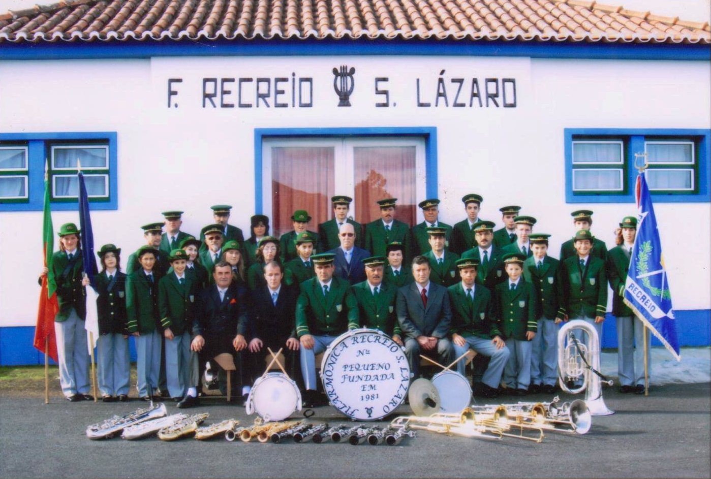 Norte Pequeno